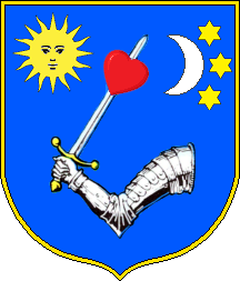 Coat of arms of Három Seat, a histoical region in Transylvania.